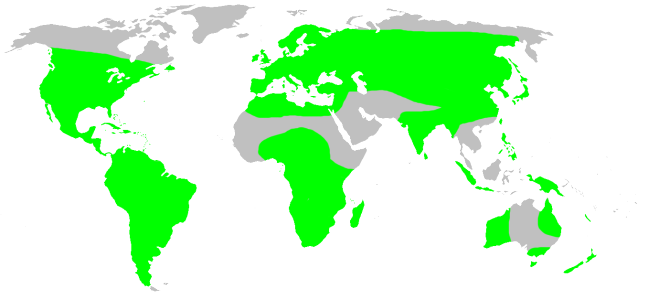 Segestriidae habitat distribution, drawn after Platnick: World Spider Catalog 7.0. This is not a precise rendering of the distribution! If you have better information, please replace this map, or send me the info, and i will redraw it.